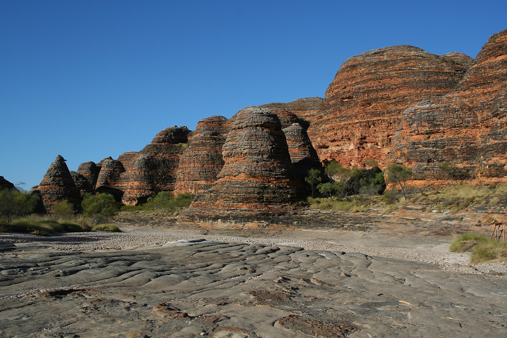 Typical rock formation at Purnululu NP (WA)